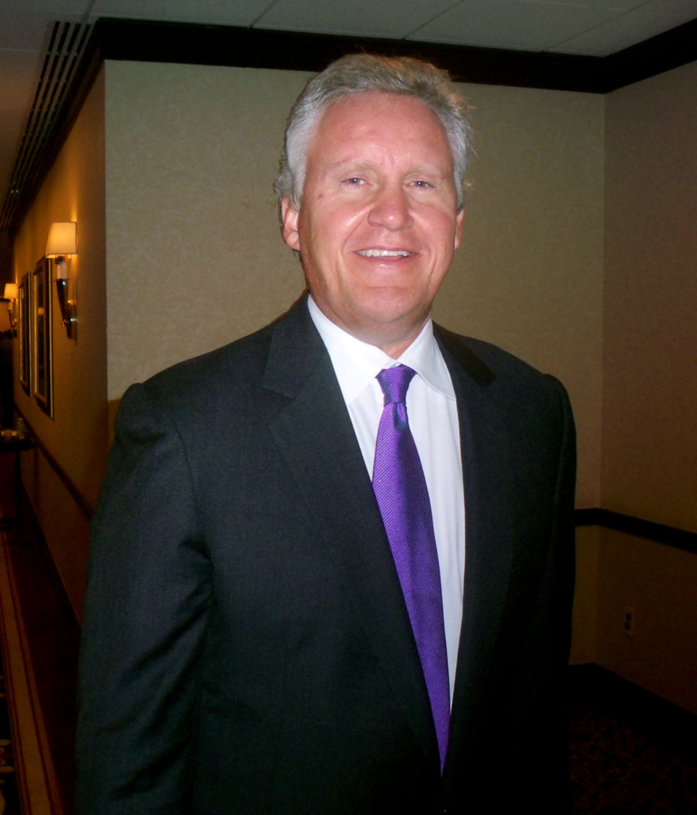 Jeffrey R. Immelt, CEO of General Electric, at the Centricity Healthcare User Group conference in Washington DC on August 28, 2009.